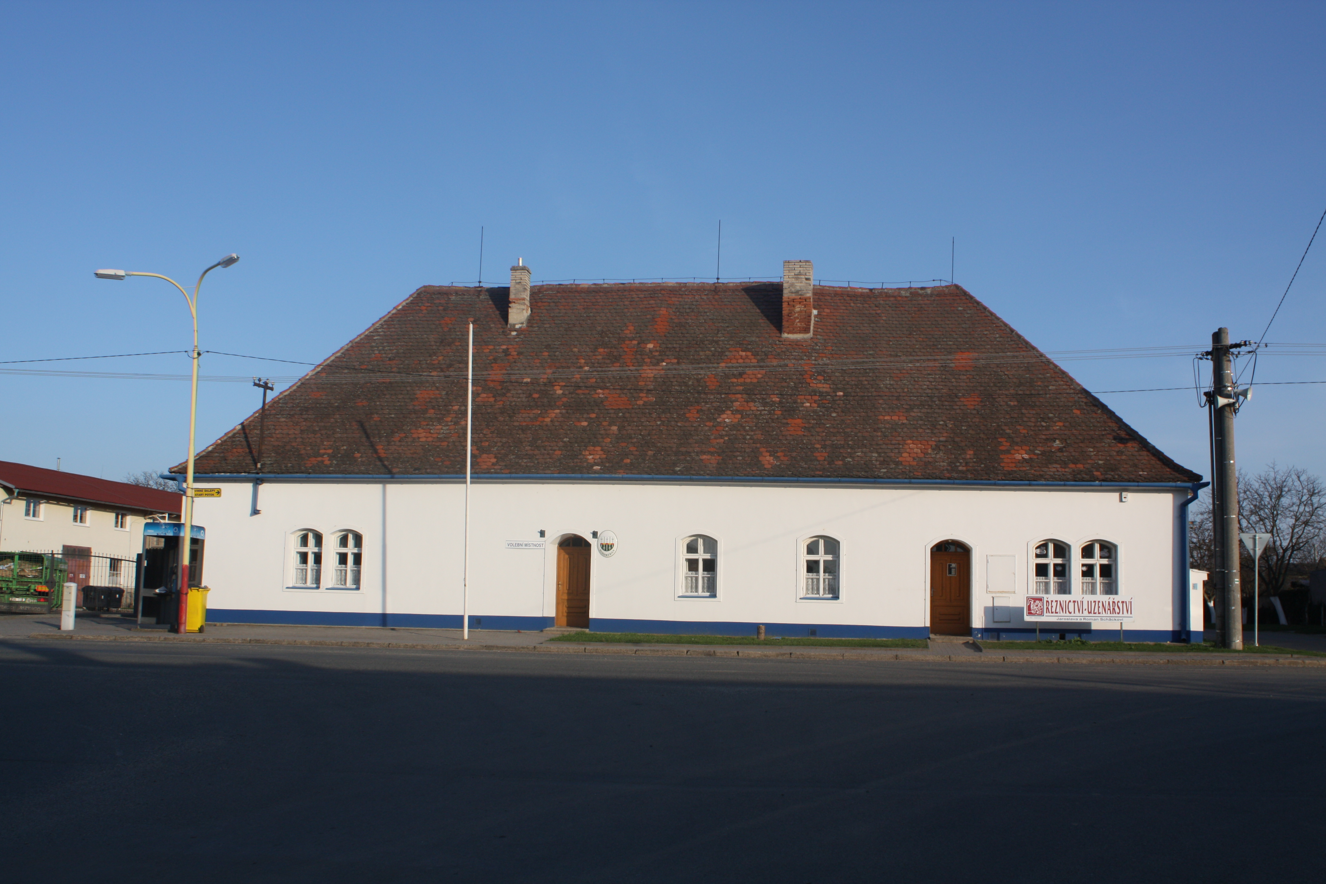 Sudoměřice (Hodonín district, Czech Republic) - gentry residence